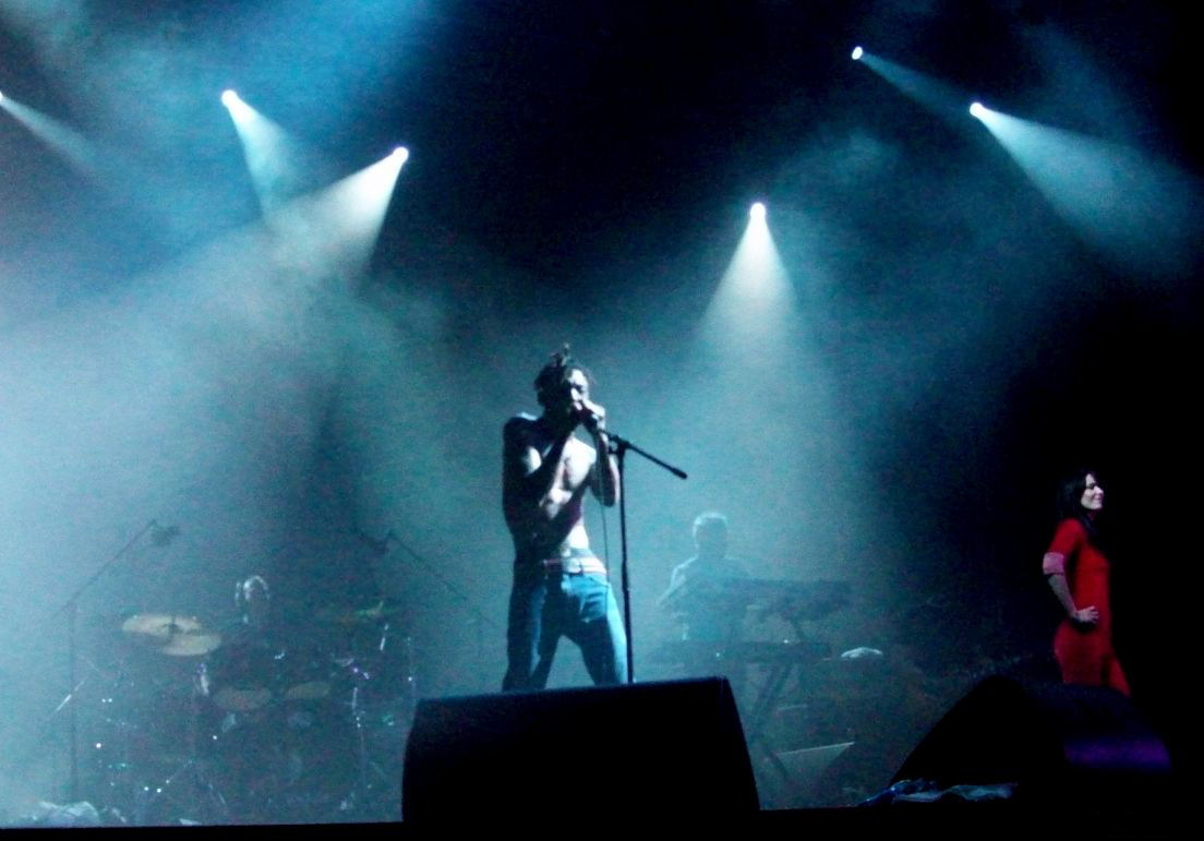 Tricky at Traffic festival